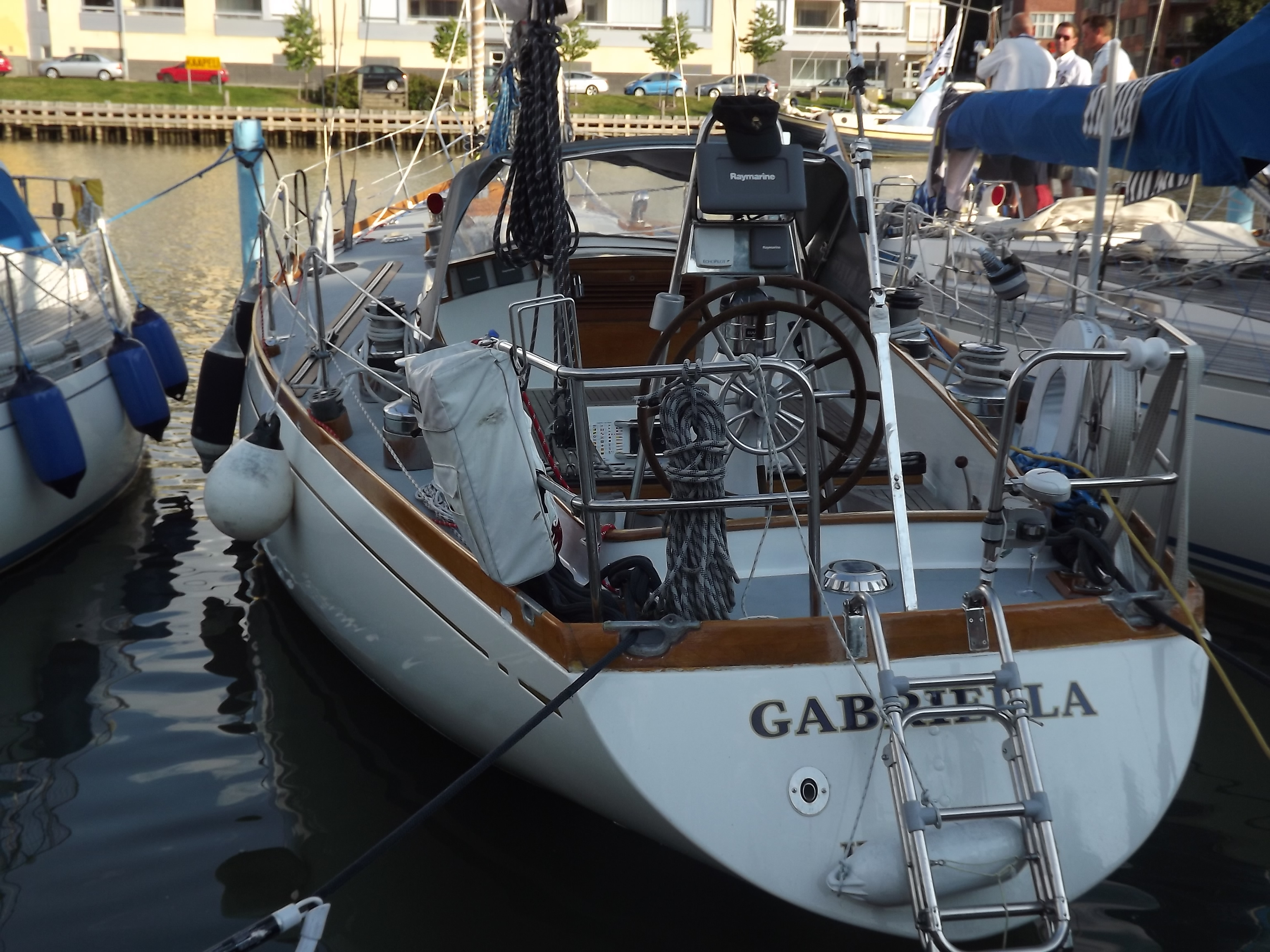 Gabriella, a Swan 43, built 1969 (1967?), in Turku guest harbour. Swan Archipelago Regatta 2012.